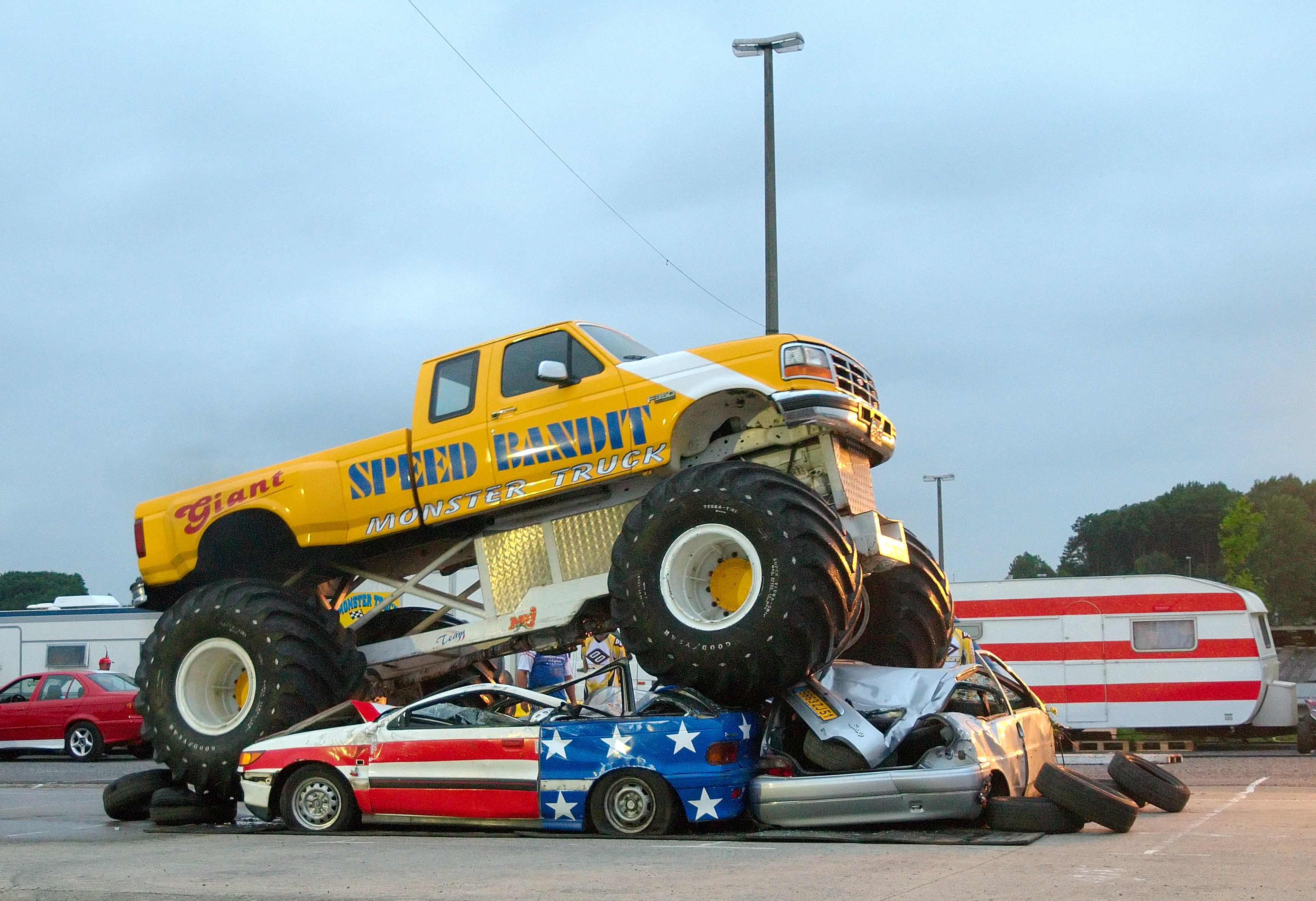 exhibition Monster Truck Ciney (Belgium)